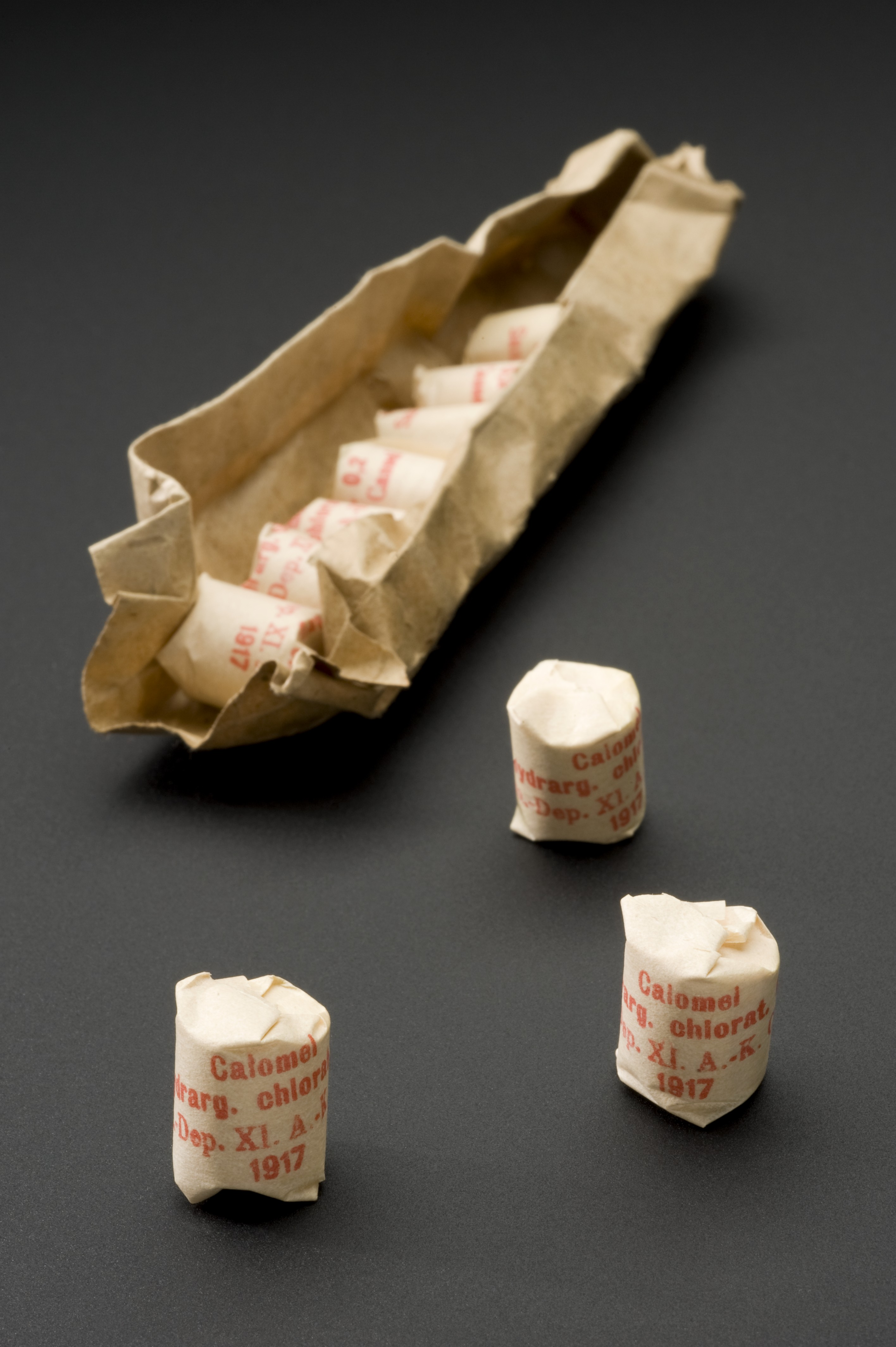 Mercurous chloride (HgCl) is also known as calomel. It was a popular drug from the 1800s onwards as it contained mercury, a chemical that was claimed to cure many illnesses. However, it slowly poisoned those who used it because mercury is toxic. Many of those taking such a drug would have been experiencing a venereal disease (VD) – probably syphilis. Calomel was used as an antiseptic and laxative during the First World War, but given the high rates of VD in the military it clearly proved useful in that context too. The packet contains calomel in tablet form to be taken orally. This packet was supplied by the 11th Army Corps of the German Army to its medical personnel and soldiers. maker: Unknown maker Place made: Kassel, Kassel, Hesse, Germany Wellcome Images Keywords: calomel; sexually transmitted infection; antiseptic; laxative; Syphilis